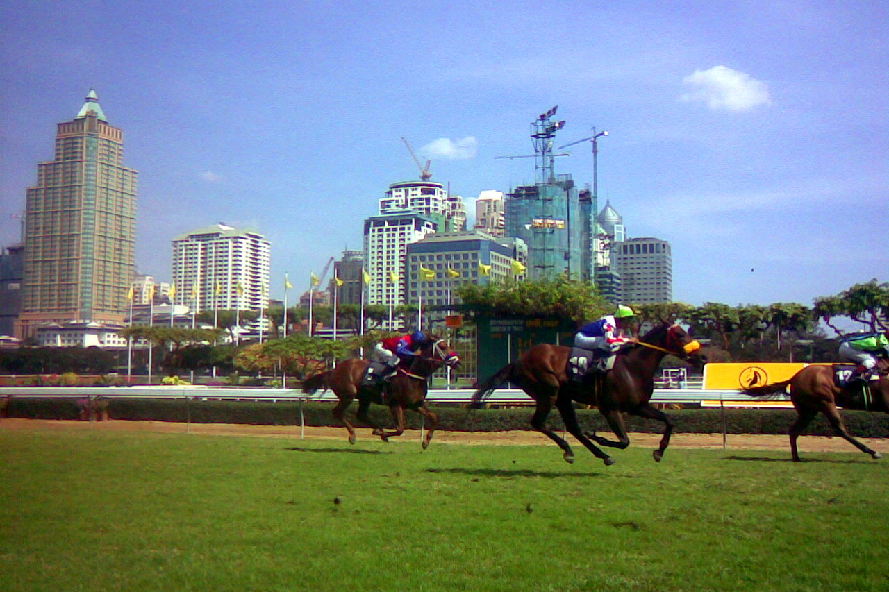 Horse Racing at the Royal Bangkok Sport Club RBSC